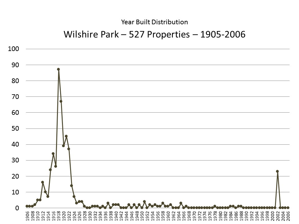 Graph building activity between 1905 and 2006 in Wilshire Park